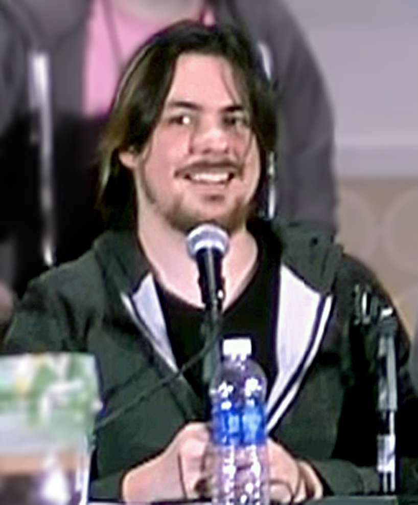 Photo of Arin Hanson at MAGFest in 2015.